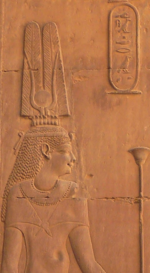 Cleopatra II and Cleopatra III (right to left), Kom Ombo Temple, Egypt